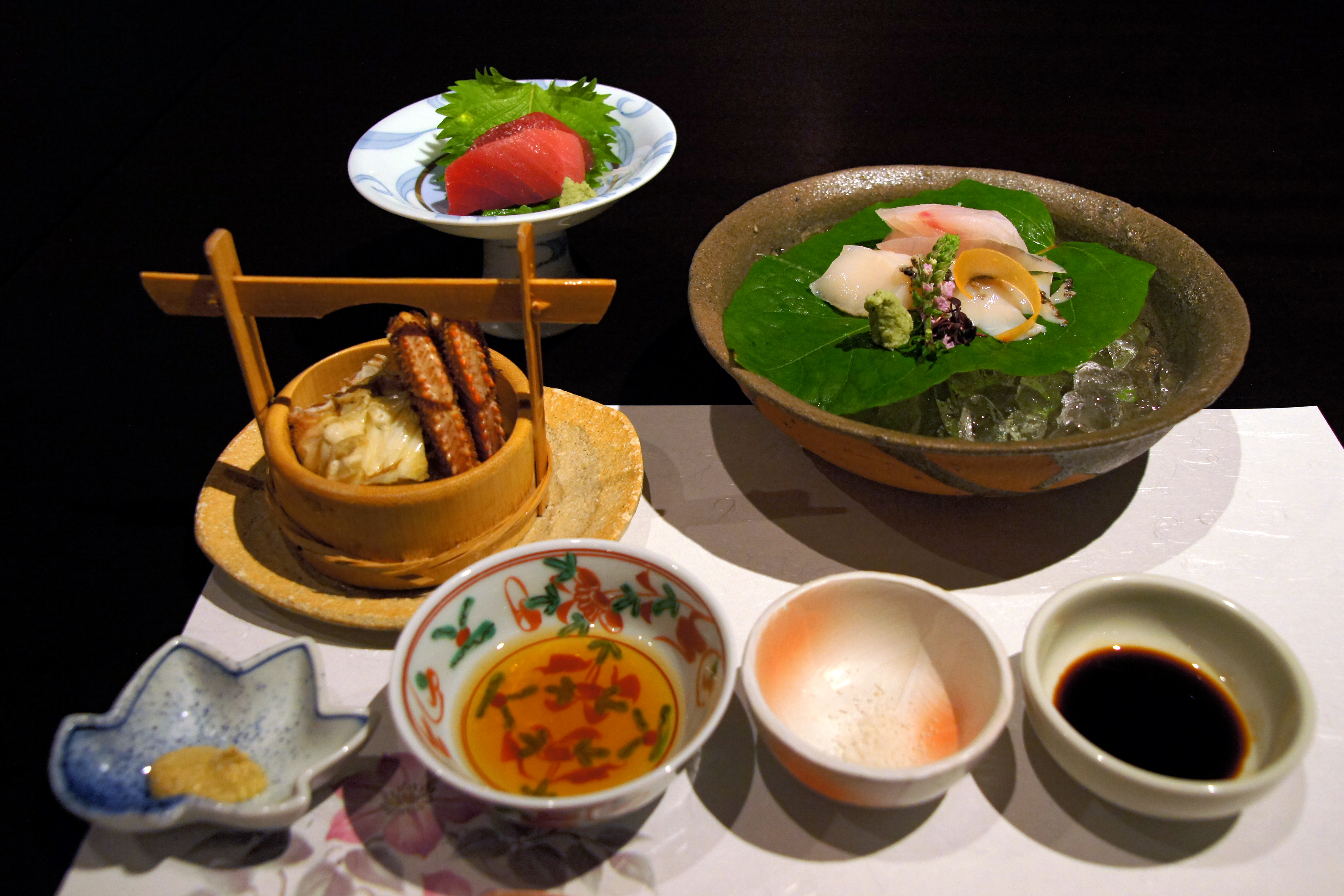 Kaiseki "Otsukuri" at KAI Tsugaru in Owani, Aomori prefecture, Japan